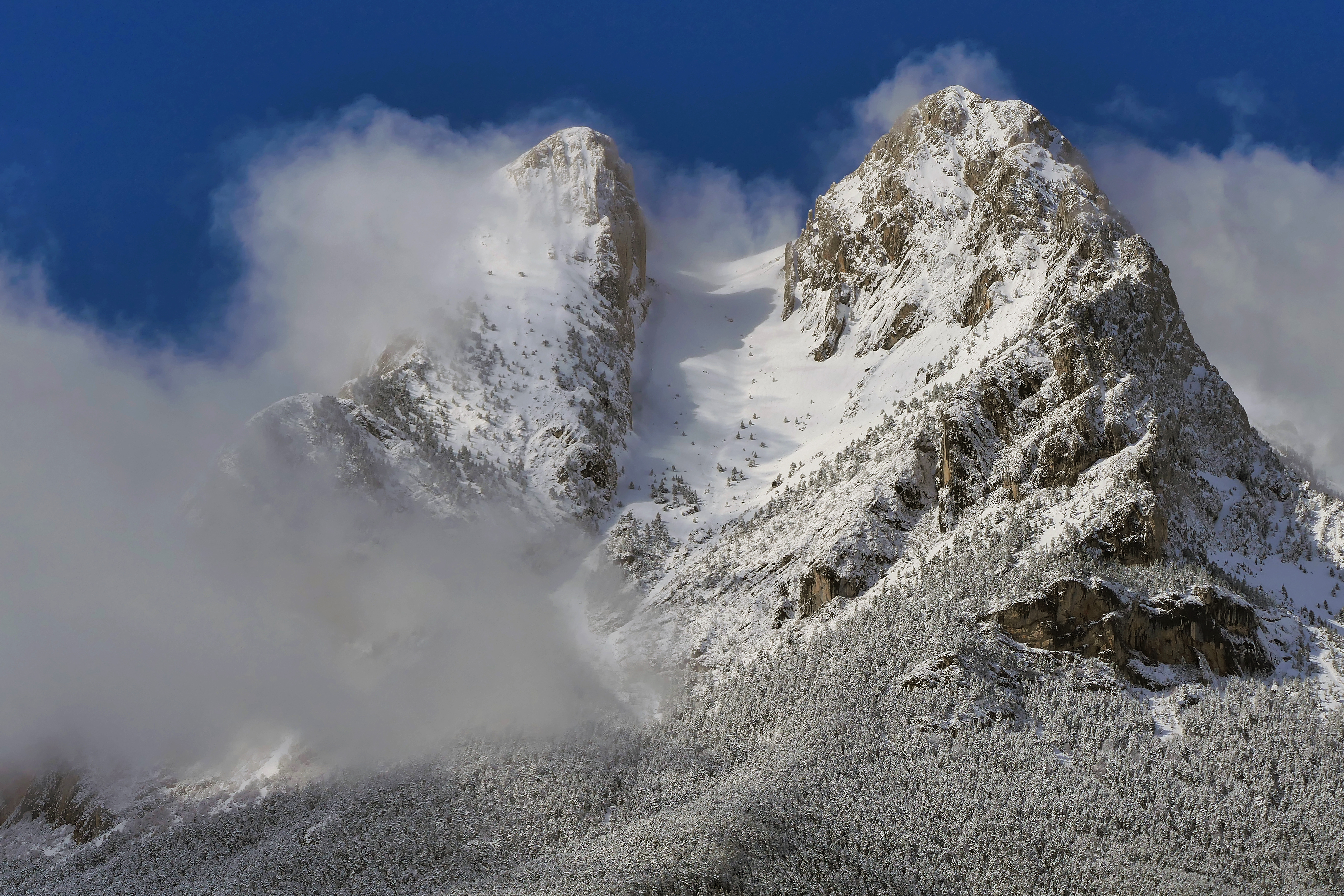 Pedraforca in winter. This is a photography of a Special Area of Conservation in Spain with the ID: ES0000018. Natura2000 entry, EEA entry